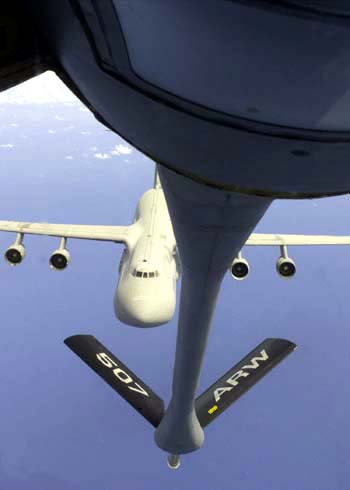 Lockheed C-5 Galaxy refueling by KC-135